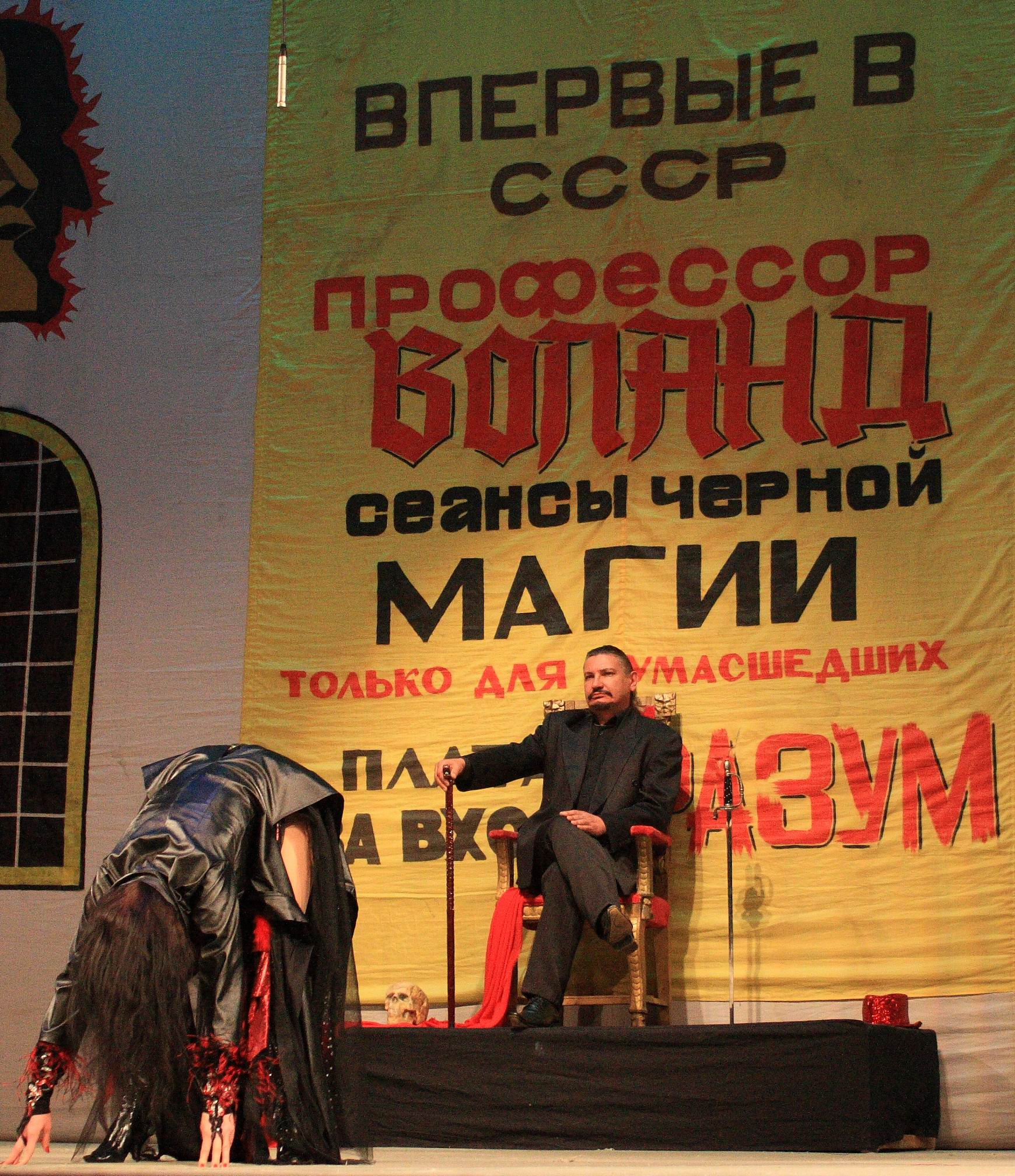 Woland as depicted in Arbat theatre perfomance.